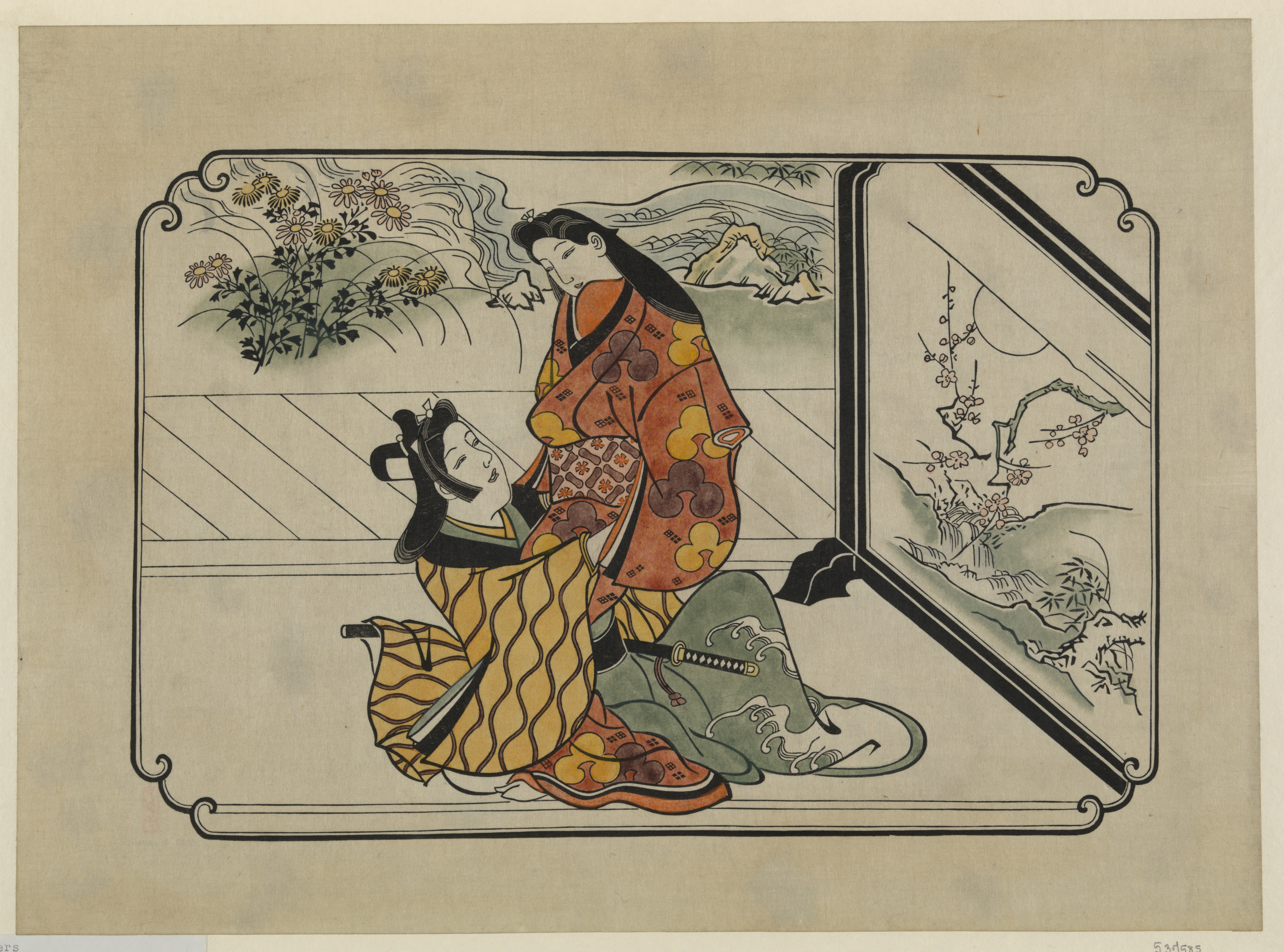 Hand-coloured ukiyo-e print Two lovers embracing in front of a painted screen, Hishikawa Moronobu, 1680